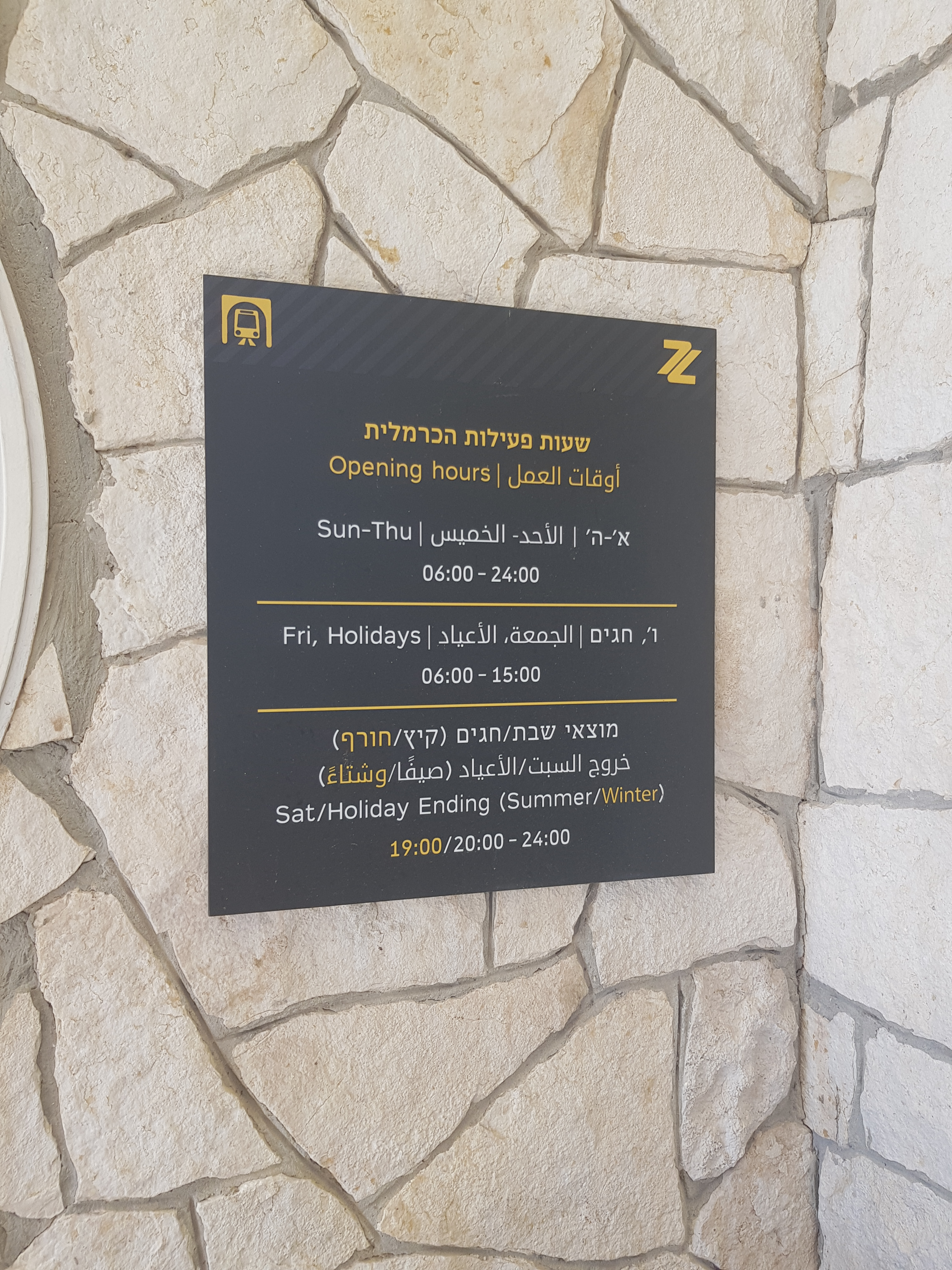 Opening hours of the Carmelit